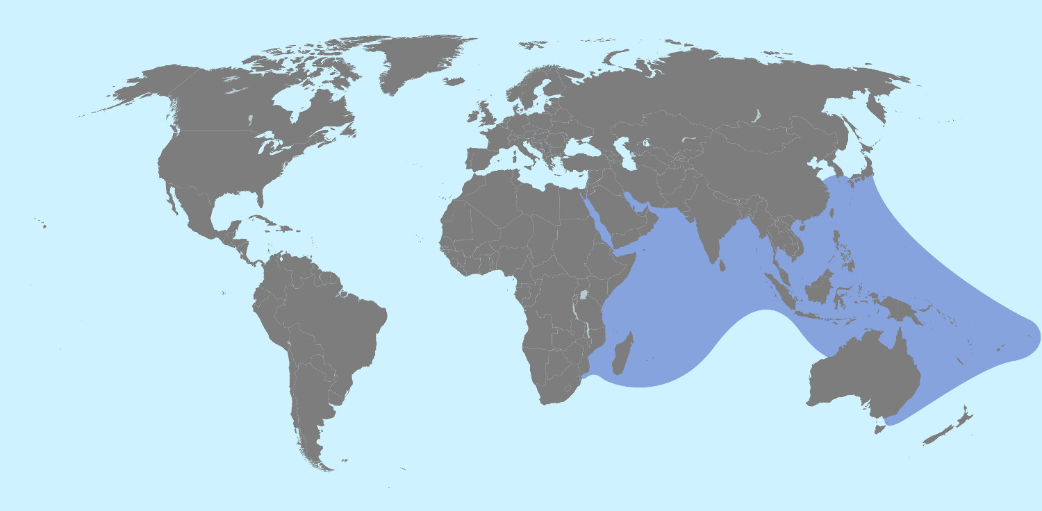 Toxopneustes pileolus distribution range